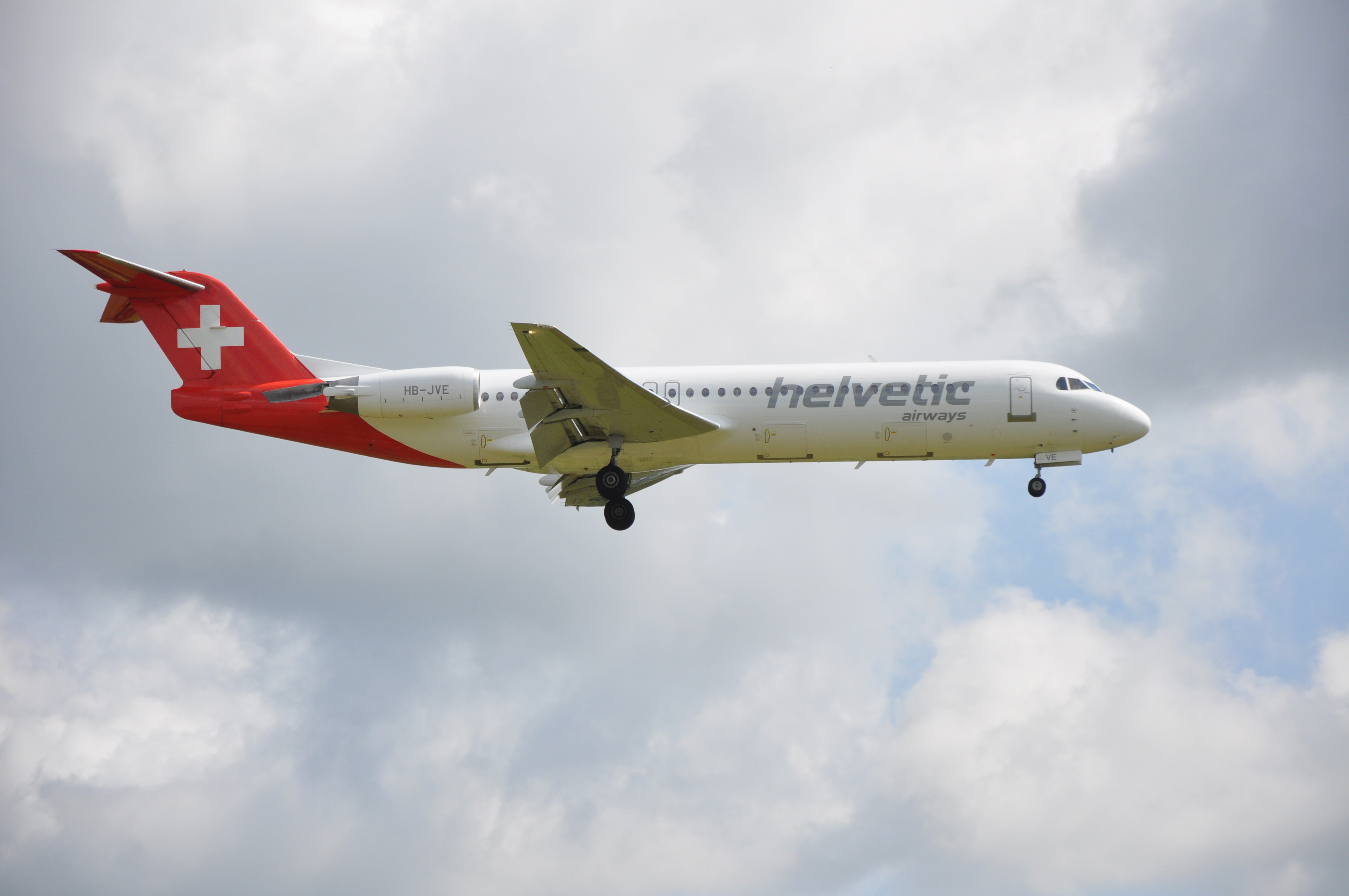 Switzerland, Zürich, Helvetic Fokker F100 (F-28-0100) HB-JVE approaching Rwy 14 at Zurich International Airport